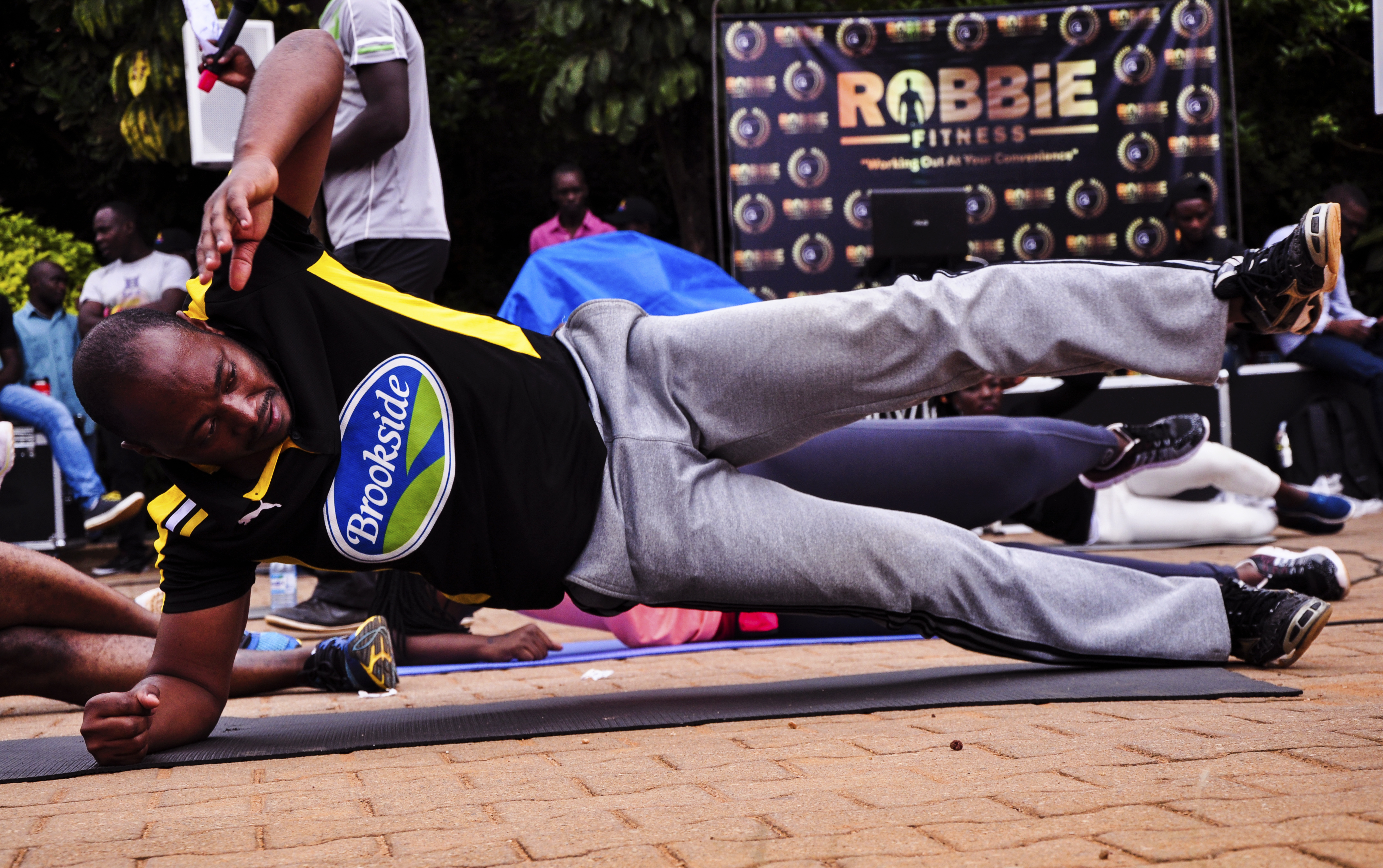 a man who had attended Robbie dance fitness session is busy working out for a healthy body and mind